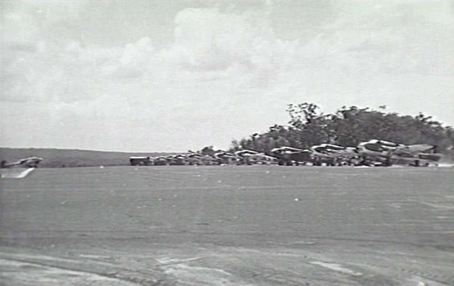 Sourced from: Copyright: The AWM record for this photo states that the copyright status is 'clear'. The photo was taken in 1943 or 1944. AWM Caption: JERVIS BAY, ACT. BRISTOL BEAUFORT TORPEDO BOMBERS AT NO 6 OPERATIONAL TRAINING UNIT AND BASE TORPEDO UNIT, TORPEDO TRAINING UNIT. (NAVAL HISTORICAL COLLECTION)